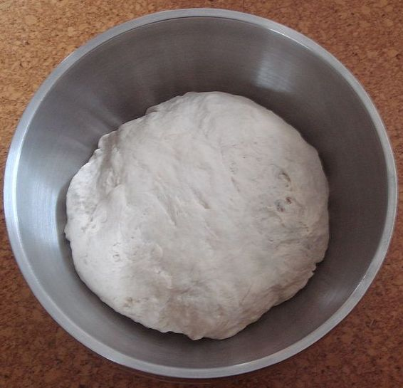 Yeast bread dough, ready for proving